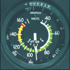 Extracted from the Pilot's Handbook of Aeronautical Knowledge, AC 61-23C, online at